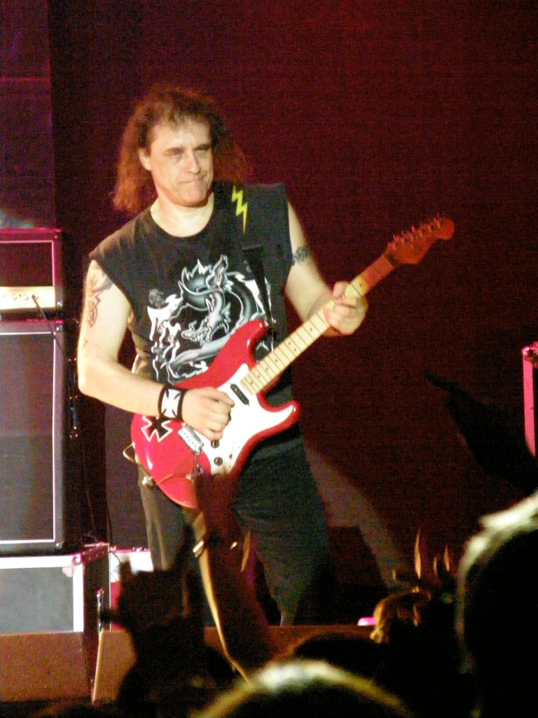 Vladimir Holstinin, from heavy metal band Aria, performing at a show in Vladivostok